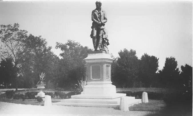 Monument to geographer and explorer Alexander von Humboldt (1769–1859) at Tower Grove Park in St. Louis, Missouri, United States